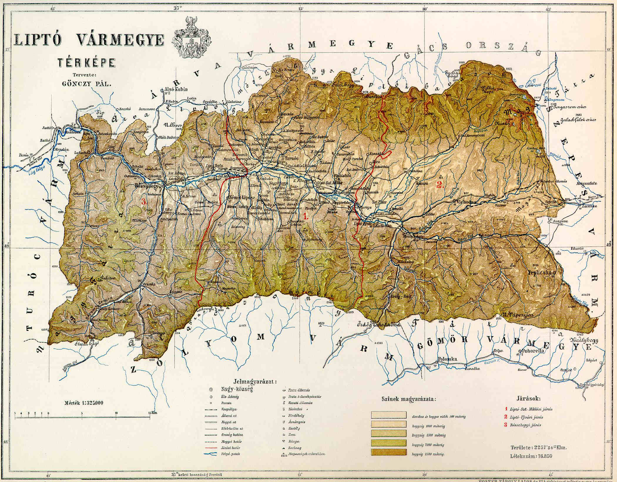 County of Liptó in the pre-Trianon Kingdom of Hungary. Komitat Liptó w Królestwie Węgier przed traktatem w Trianon.